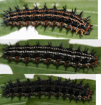 Common Buckeye larva variation, Junonia coenia